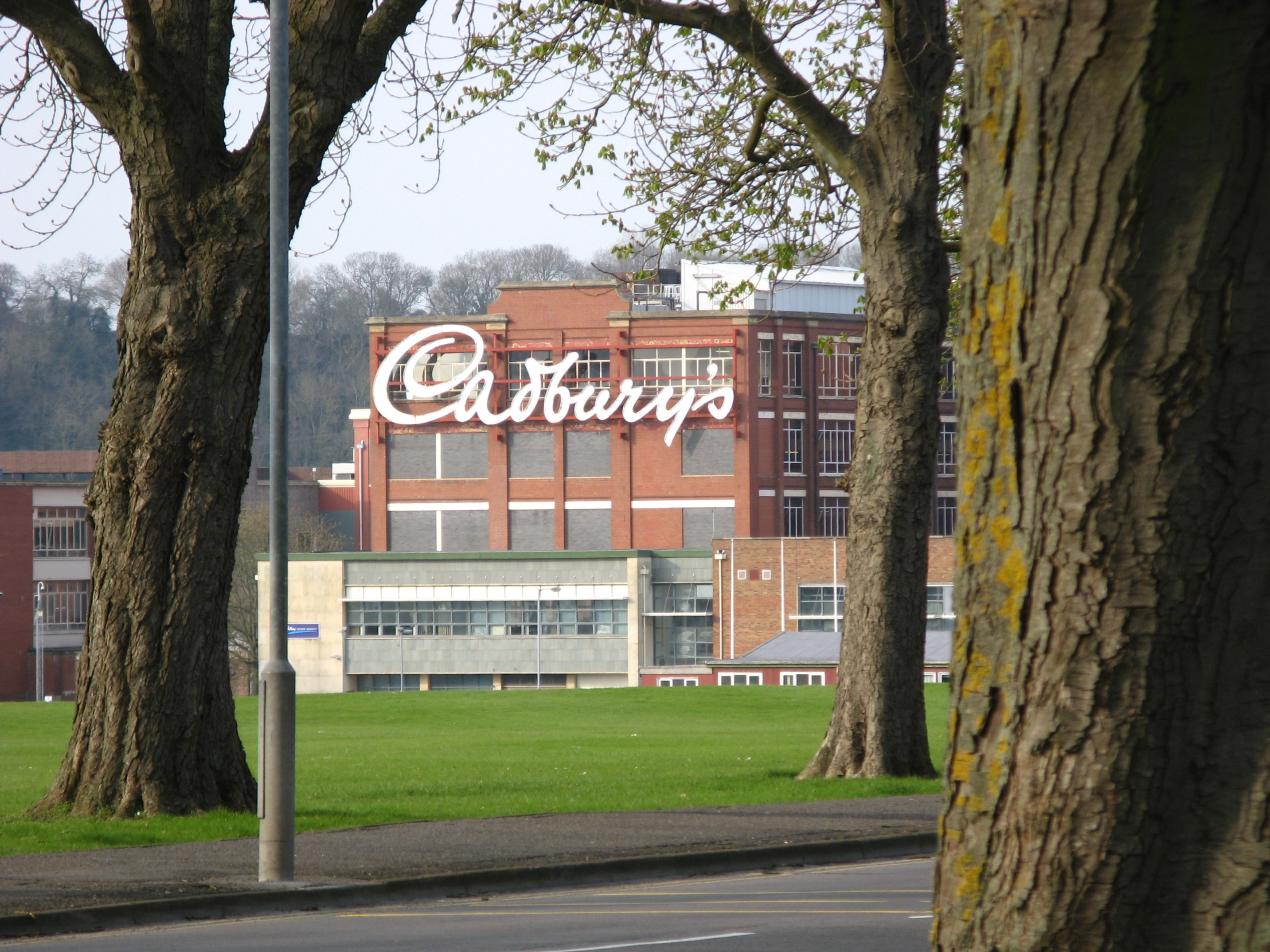 Cadbury's Somerdale Factory, Keynsham, north side through trees alongside the entrance road and across front lawns.